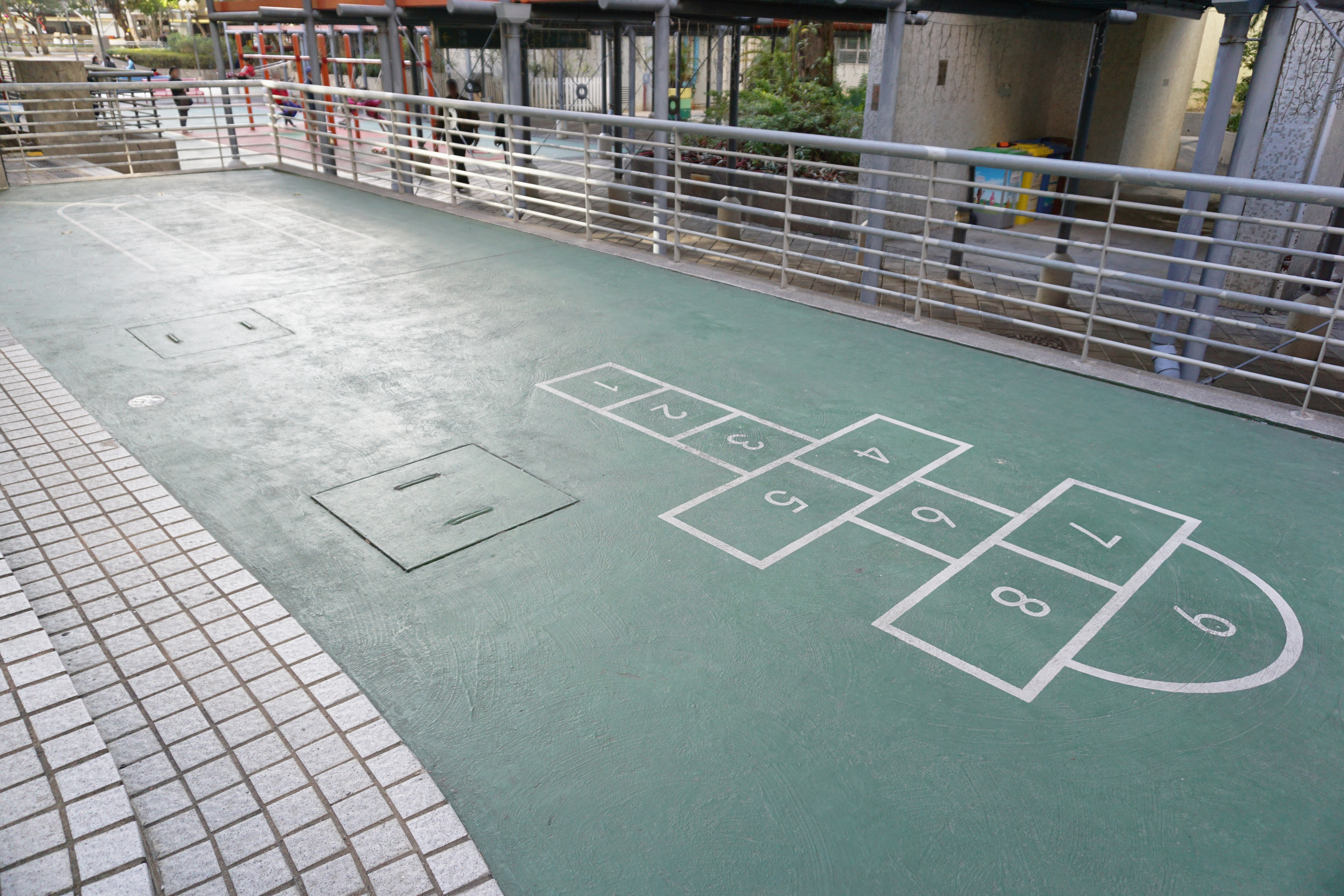 Yiu On Estate in Ma On Shan, Hong Kong.